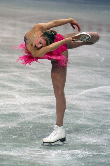 Carolina Kostner performs a donut spin during her free skate at the 2007 European Figure Skating Championships.